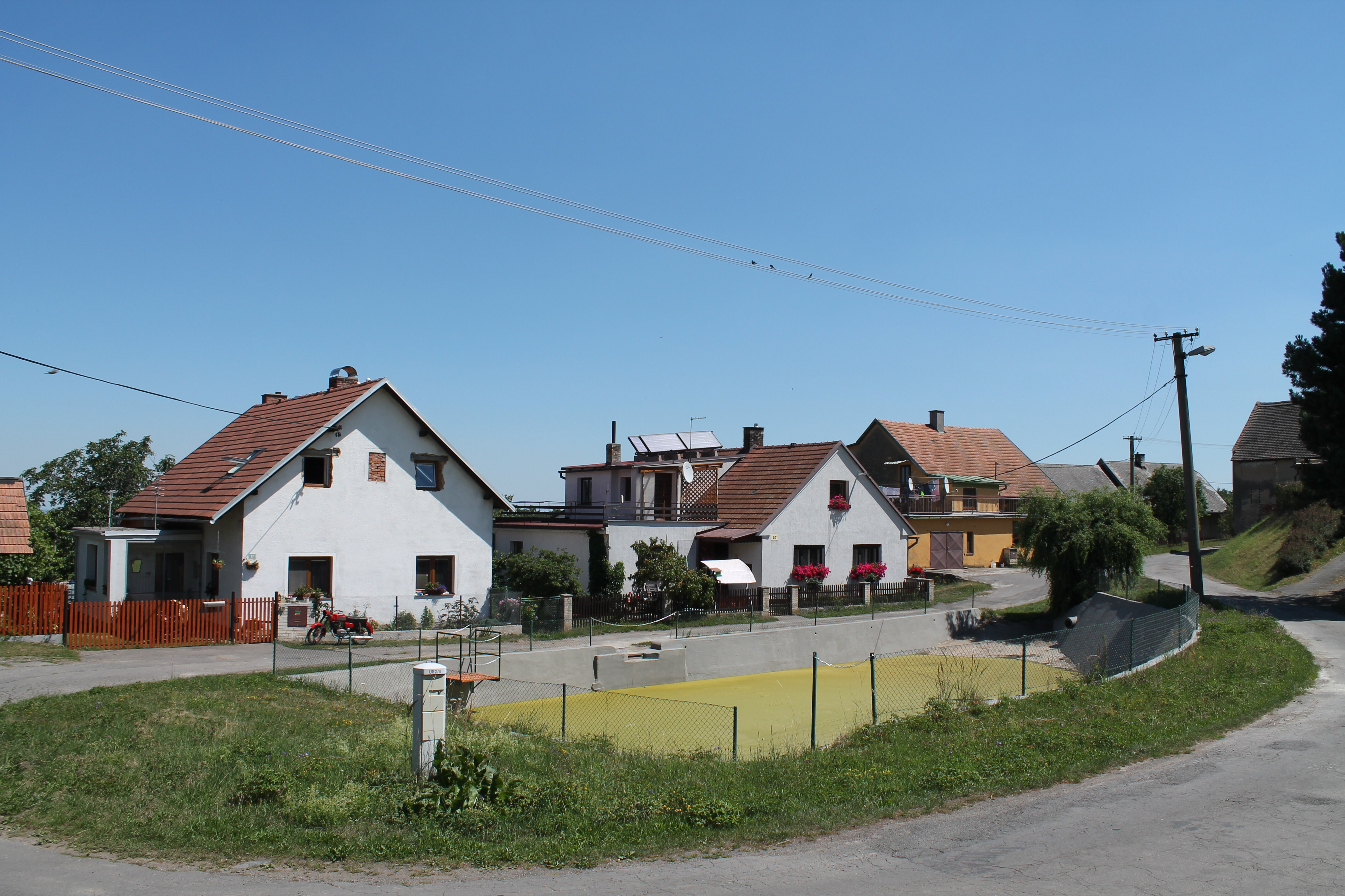 Čejkovice, Mladoňovice, Chrudim District, Czech Republic